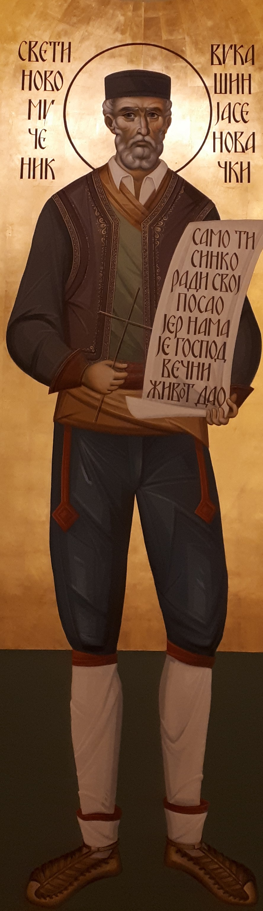 Frescoe of Vukašin Jasenovački in Saint Sava temple in Belgrade